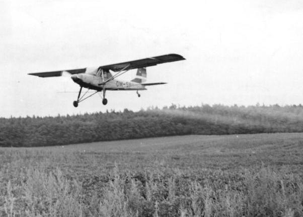 Aircraft Aero L60 Brigadyr